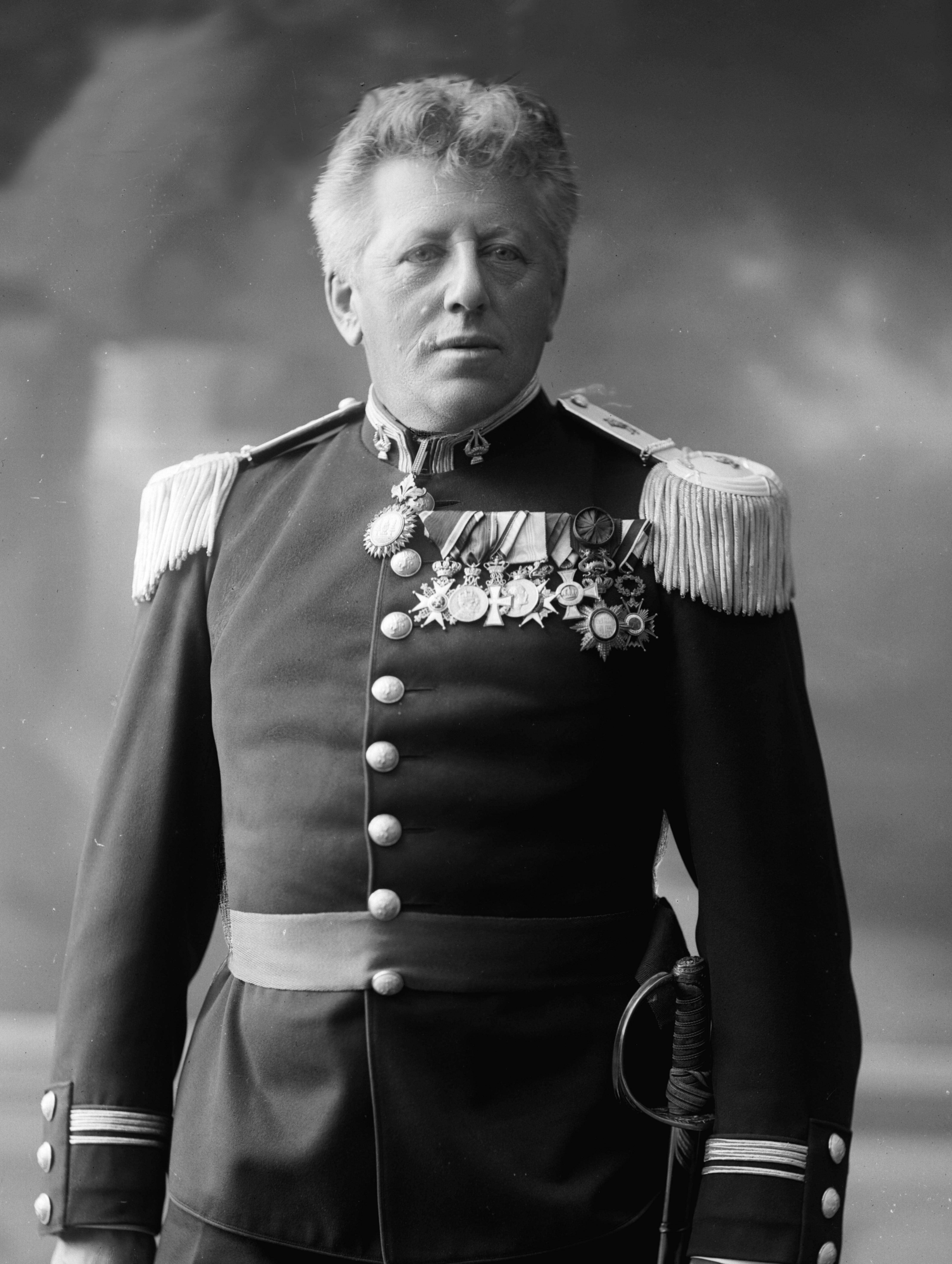 Ole Olsen (1850-1927), Norwegian organist, composer, conductor and military musician. Photography by Gustav Borgen in the collection of Norsk Folkemuseum.